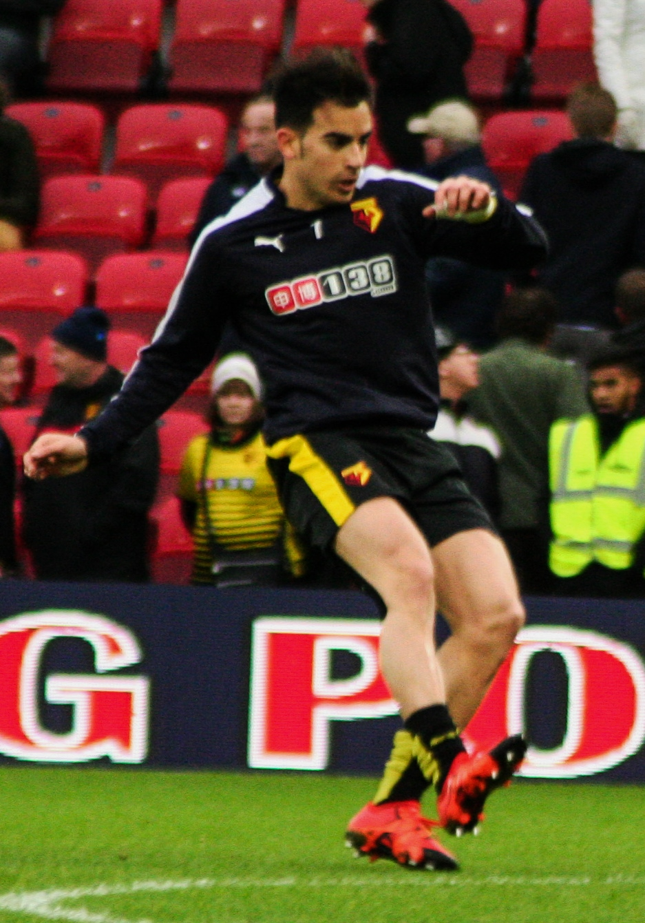 José Manuel Jurado